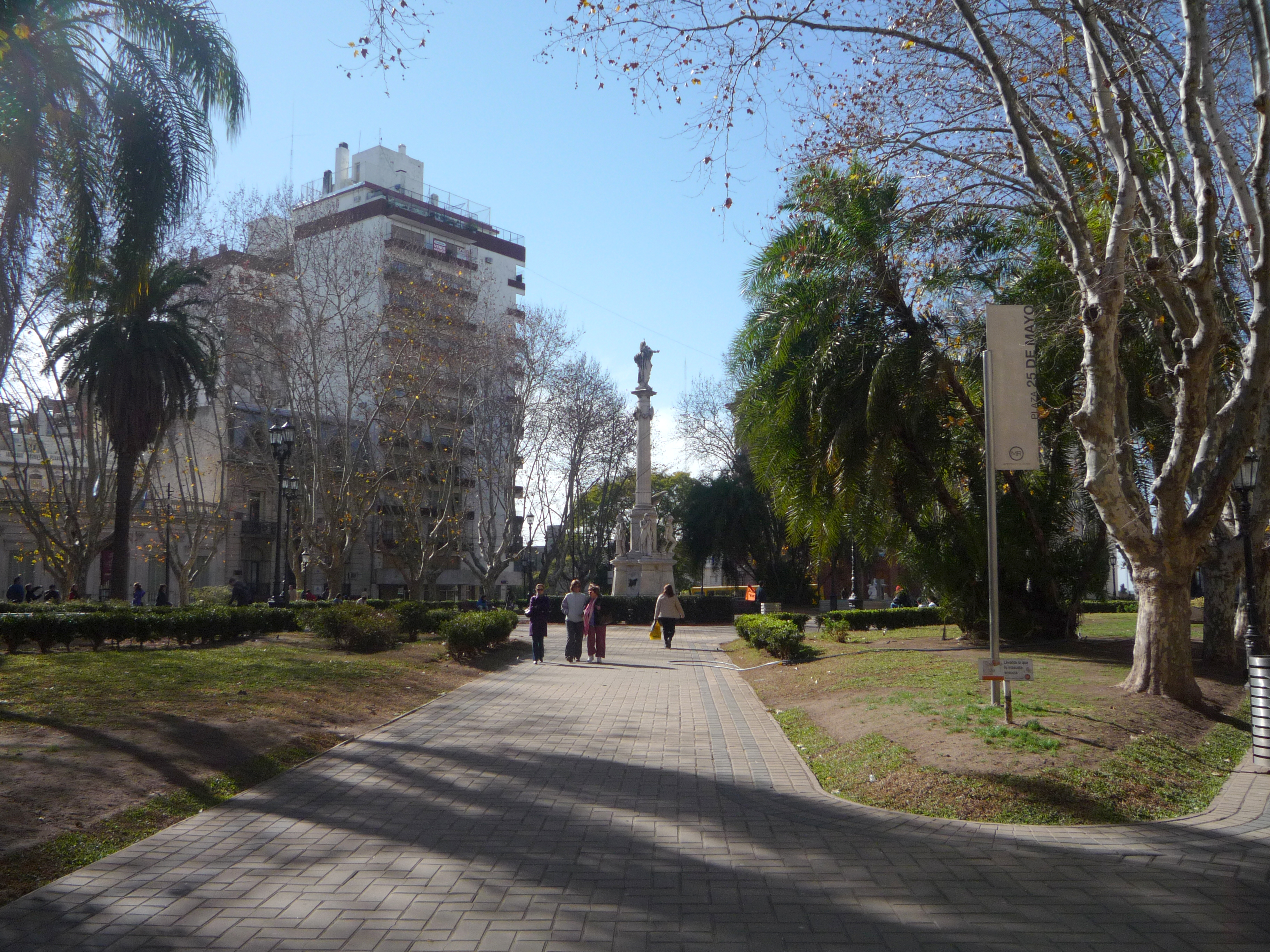 25 de Mayo Square in Rosario, Argentina